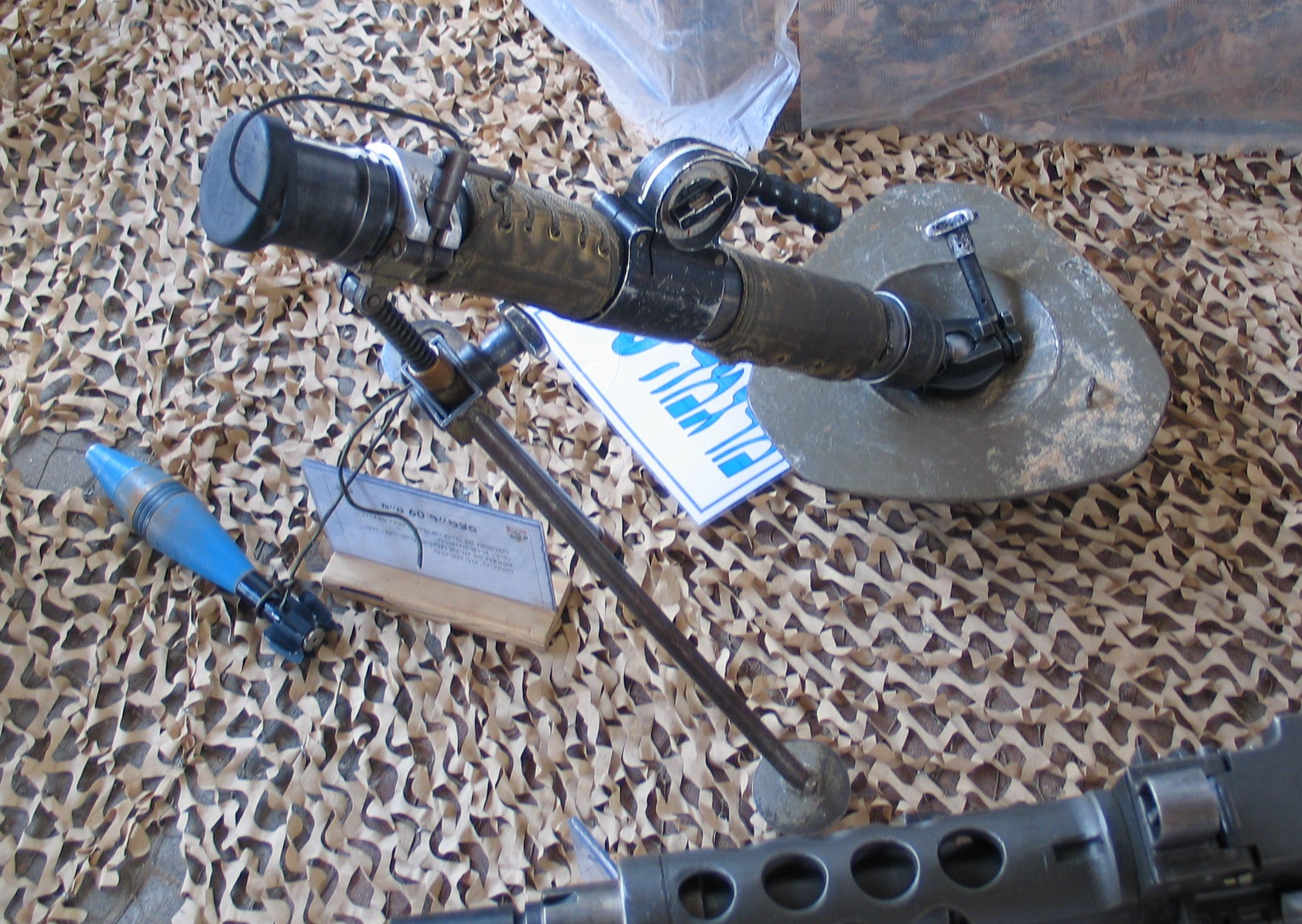 60 mm mortar. Independence Day exhibition at Yad la-Shiryon Museum, Latrun, Israel.